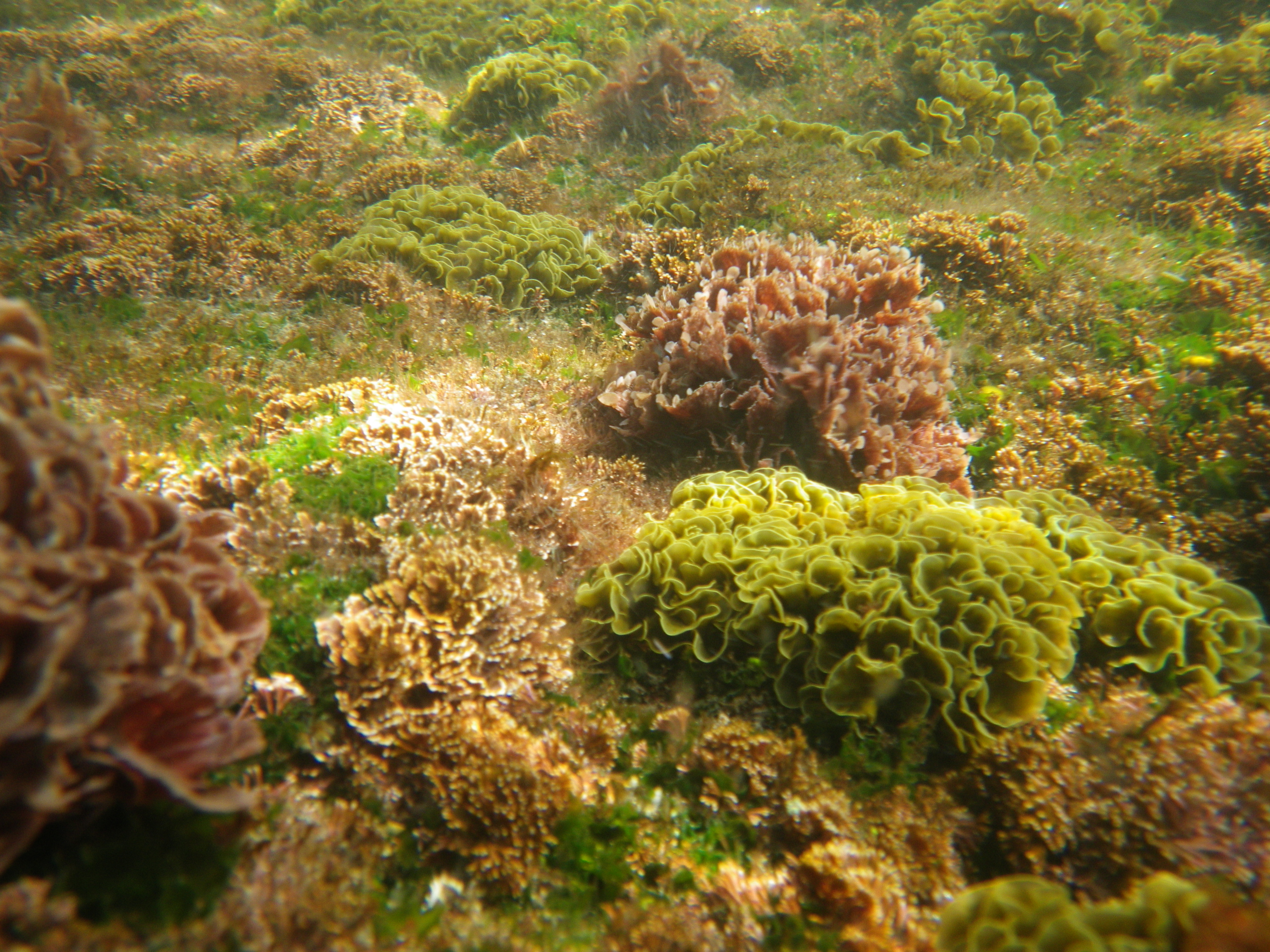 Seabed in the Royal National Park, NSW